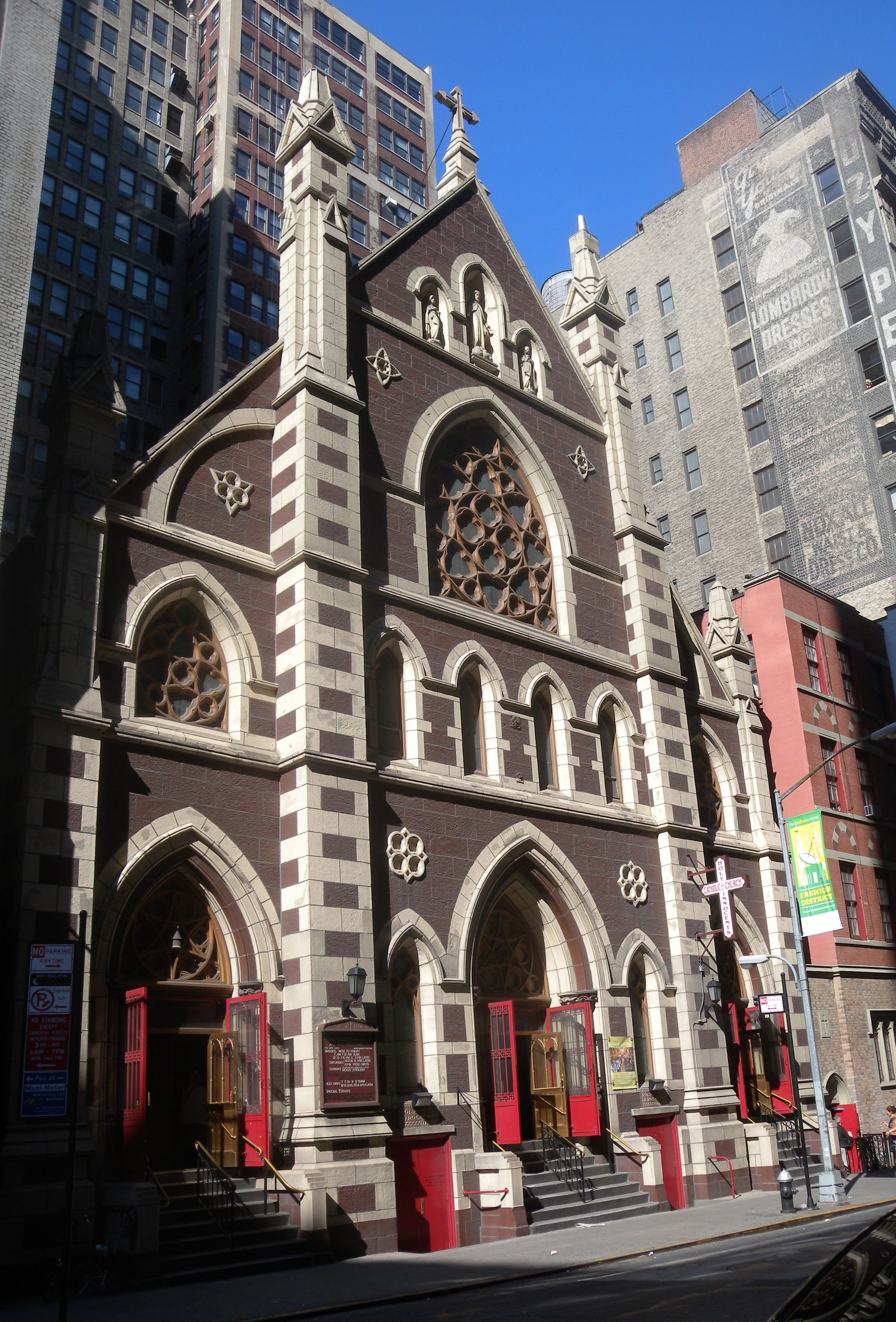 Looking west across 37th Street at Holy Innocents church, 126 W37th, on a sunny morning.